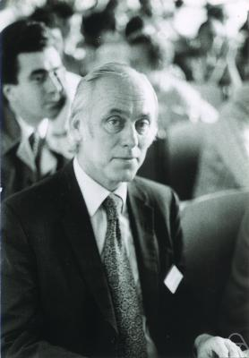 Theodore Wilbur Anderson, 20th century American statistician, at Prague in 1974.